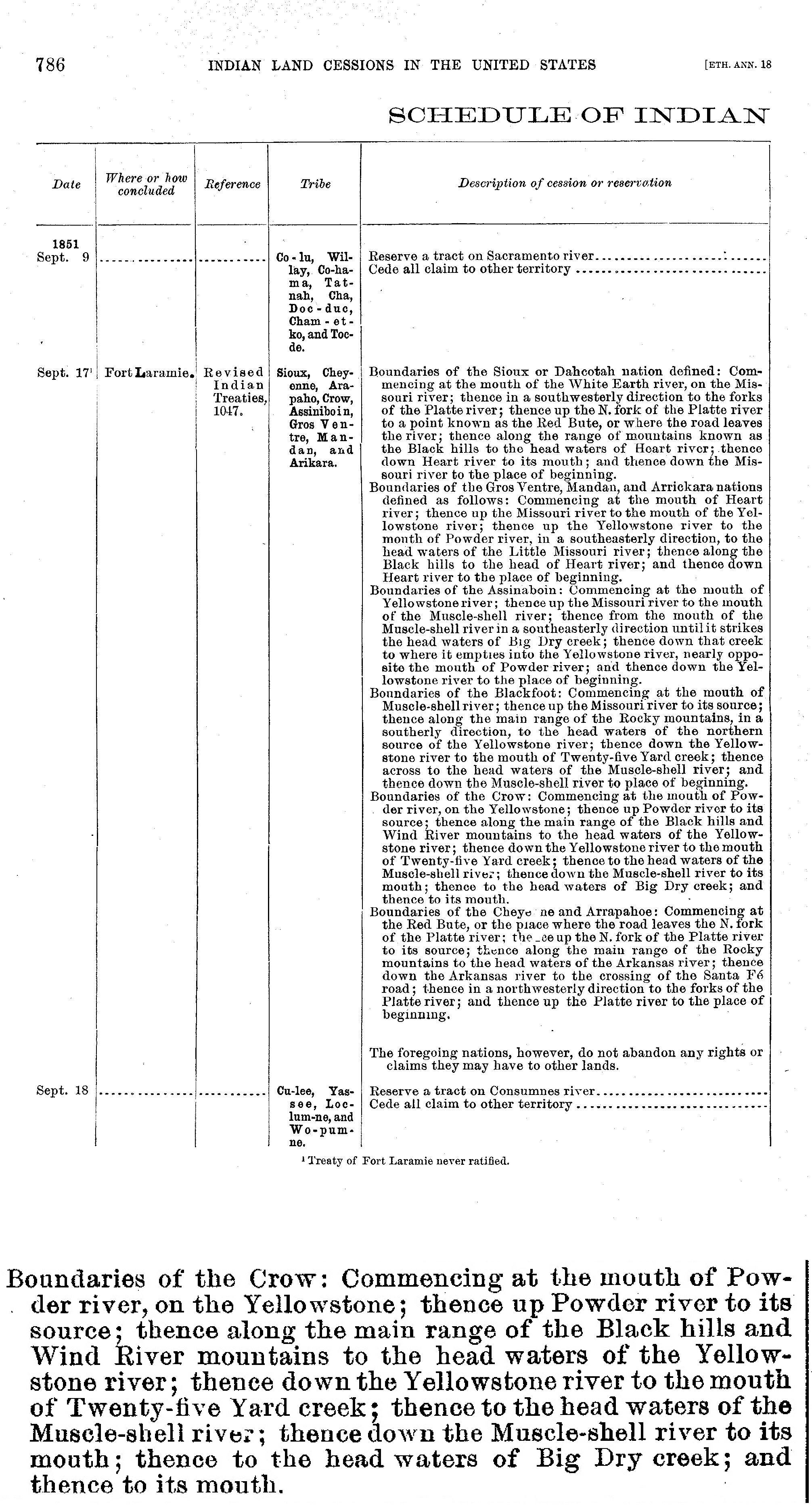 Copy of the definitions of the different Indian territories as put Down in the Fort Laramie treaty (1851). Crow territory enlarged